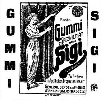 Condom advertisement in an Austrian newspaper, 1918. GUMMI = rubber, a synonym for condom; SIGI = abbreviation of the German name Siegfied = brand name; center: "Beste Gummi Spezialität Marke Sigi" = best condom specialty trademark Sigi; "ges. gesch" = proprietary; "Zu haben in Apotheken, Drogerien etz. etz." = to be sold in pharmacys, drugstores etc.